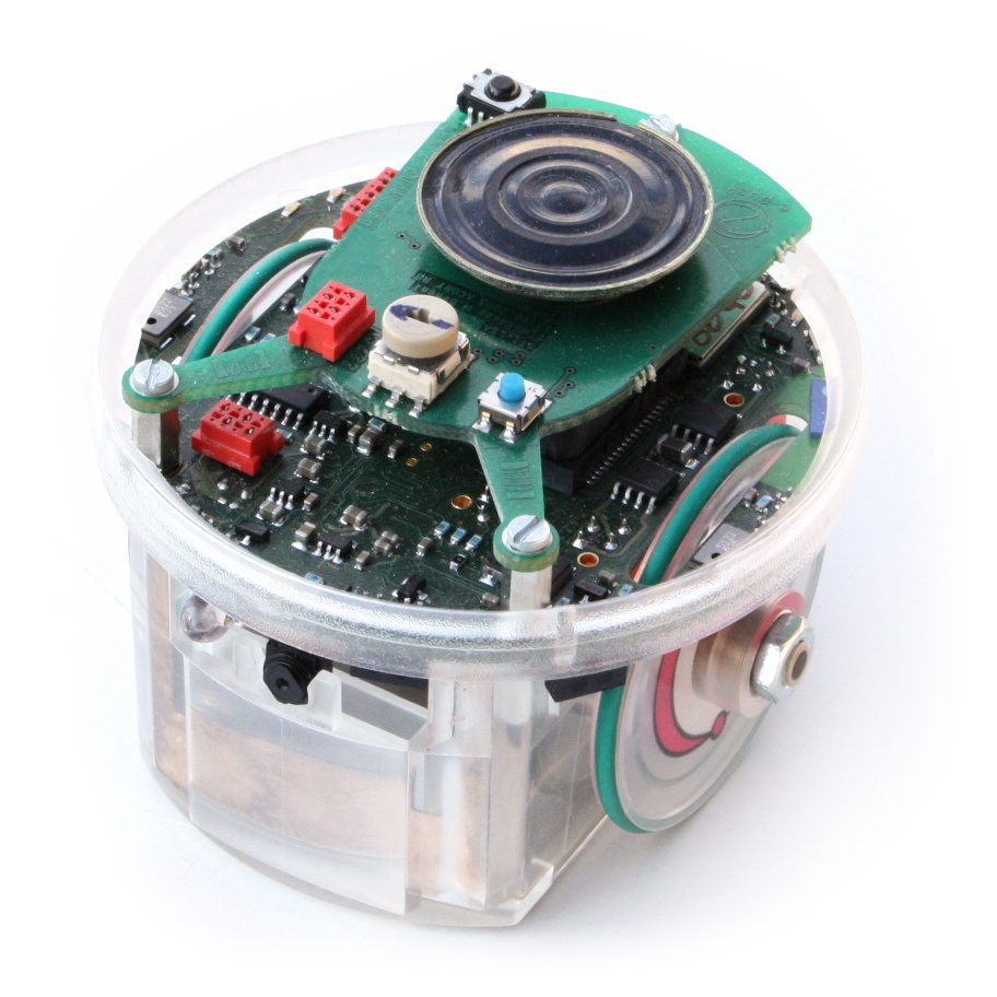 Photo of the e-puck mobile robot